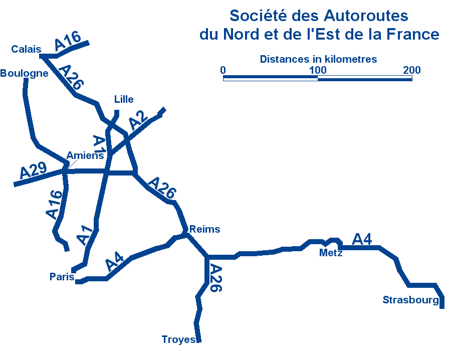 Author: Gregory Deryckère Source: Own work Date: 28th August 2006